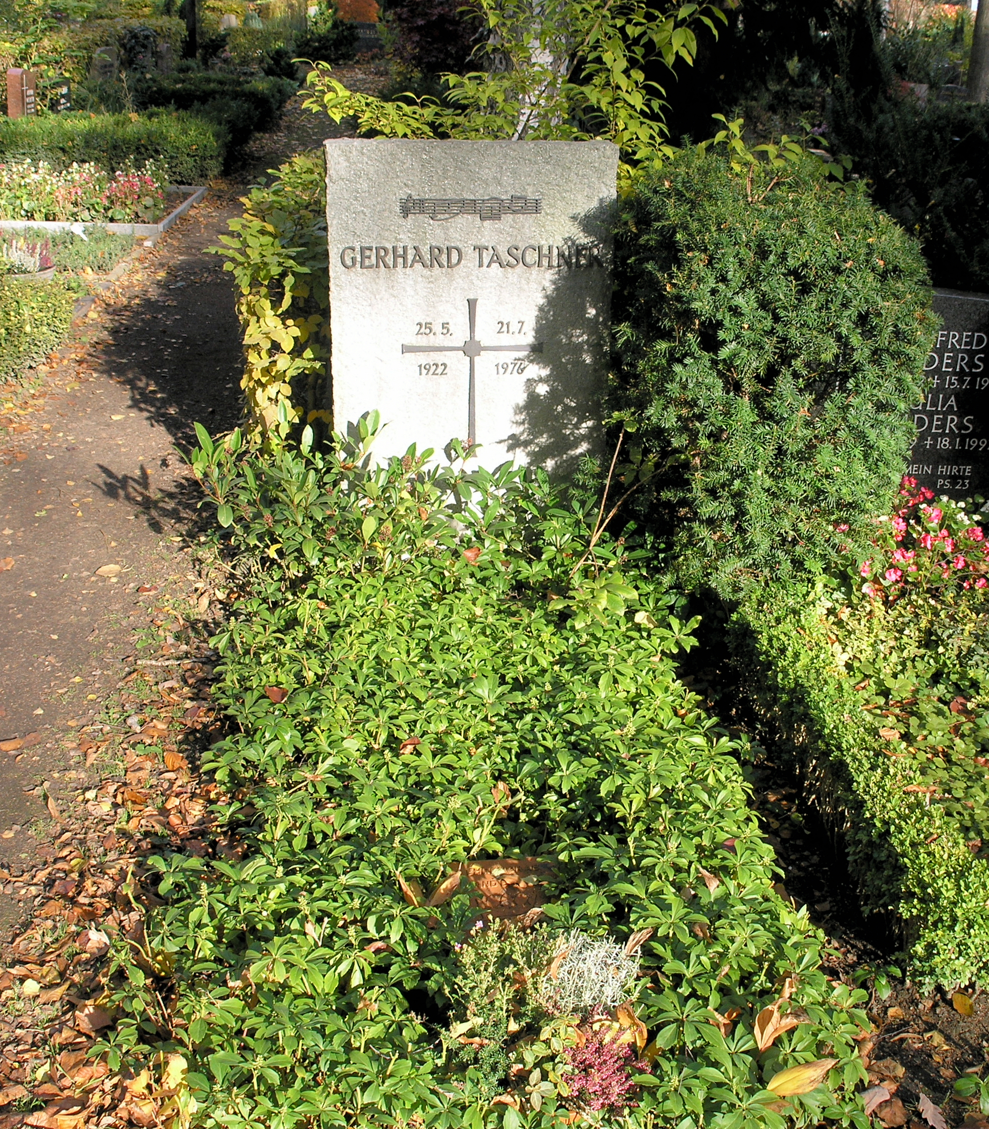 "Ehrengrab" (grave of honor), Gerhard Taschner, Stubenrauchstraße 43-45, Berlin-Friedenau, Germany